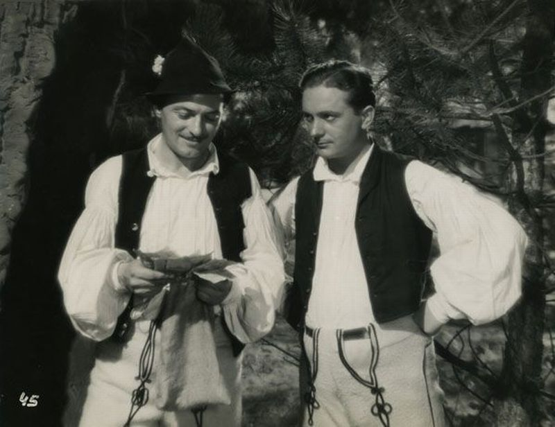 Scene from the Hungarian movie titled Uz Bence (released in 1938)